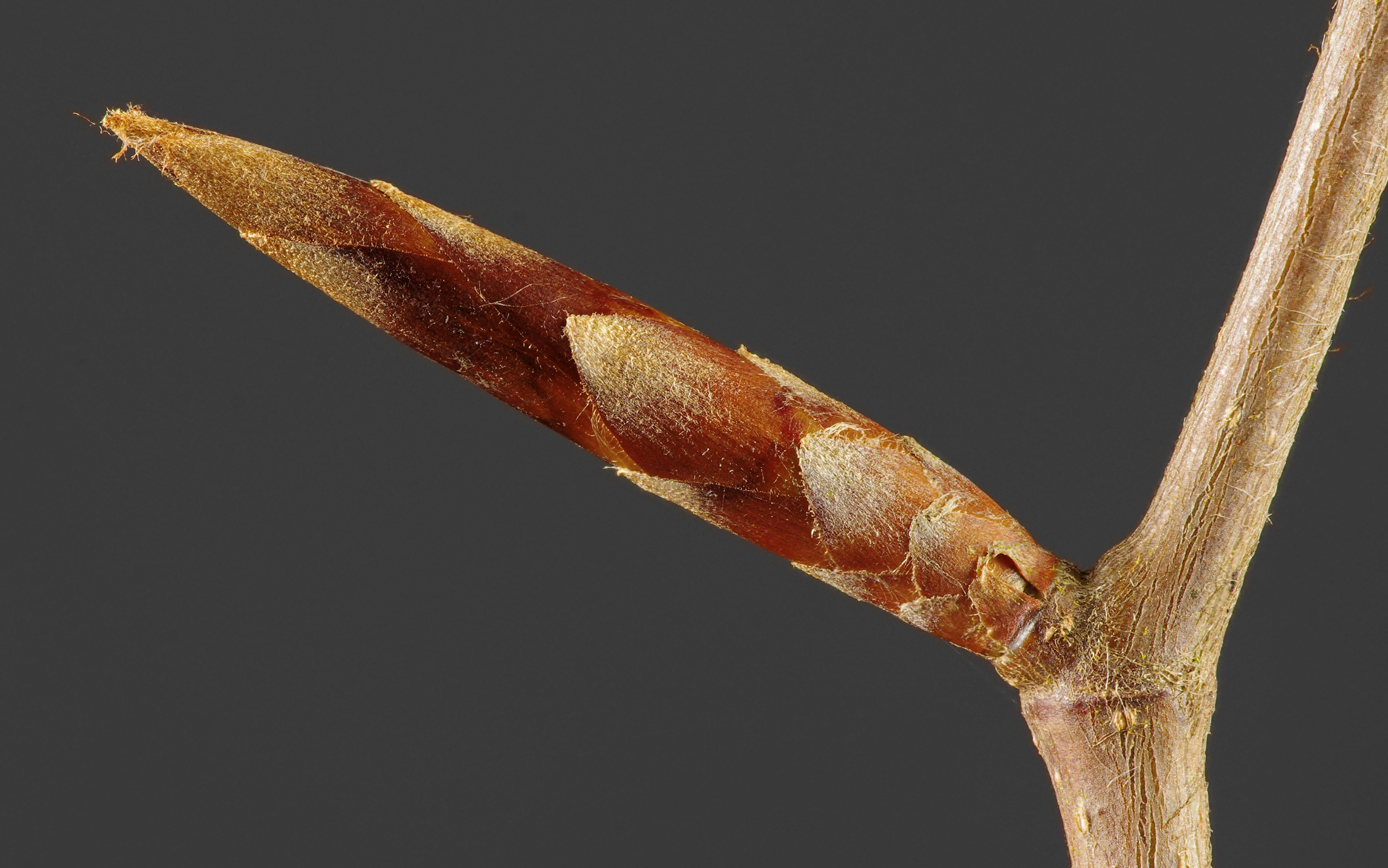 Bud of the european beech (Fagus sylvatica) Focus stacking of 12 pictures. This image was created with CombineZP.